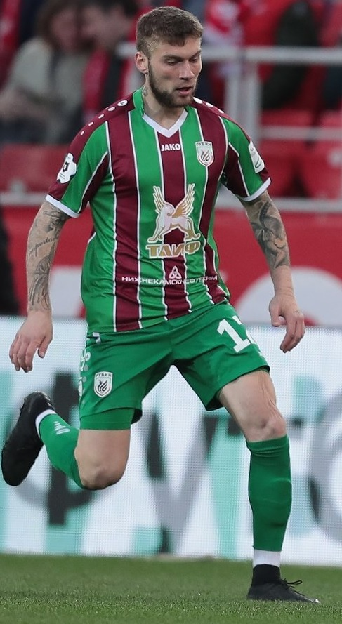 Ihor Kalinin with FC Rubin Kazan in a game against FC Spartak Moscow.